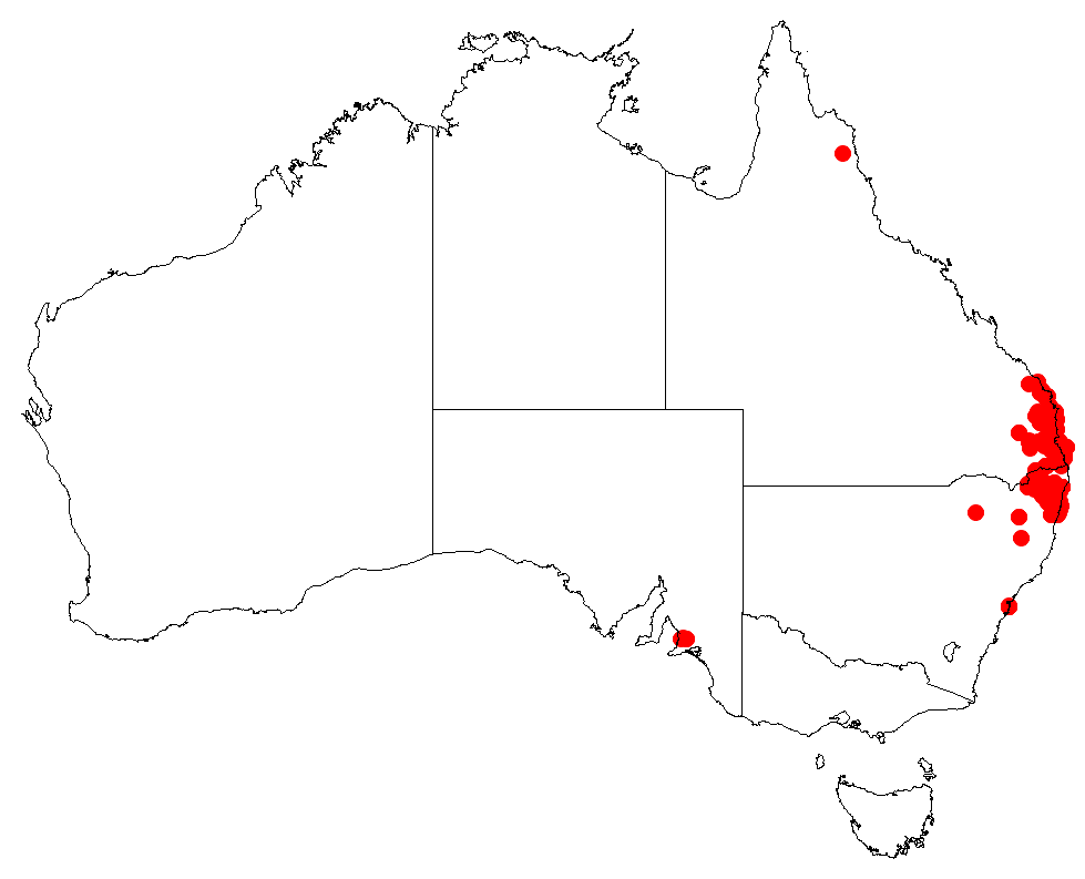 Hakea florulenta Occurrence data downloaded from Australasian Virtual Herbarium on 22 November 2018 using